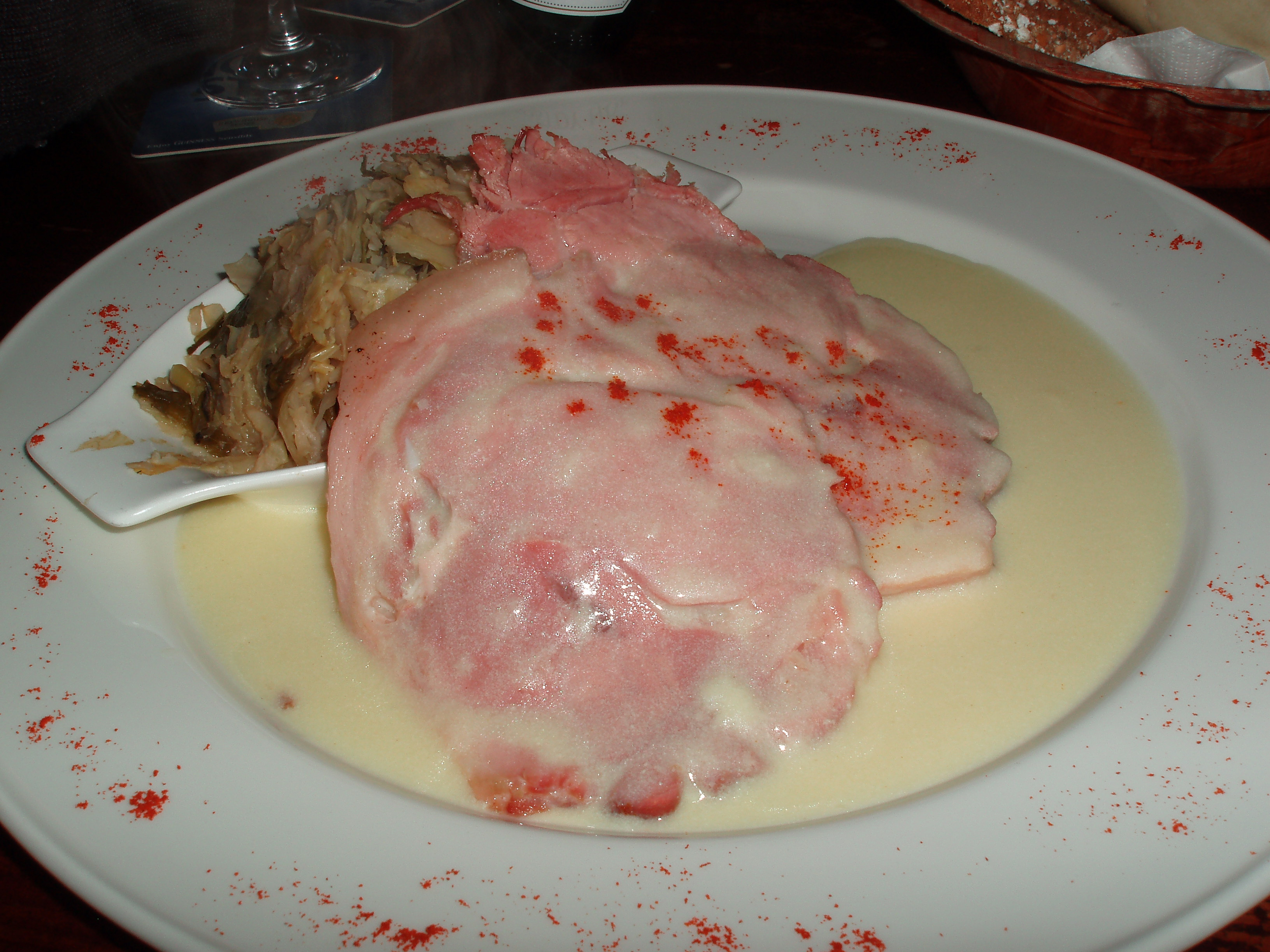 Bacon and cabbage at The Brazen Head, Dublin, Ireland